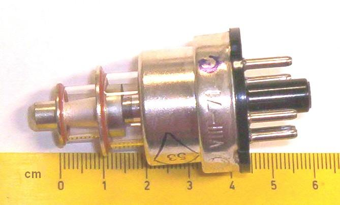 A so-called "lighthouse tube", a high frequency triode vacuum tube used as an amplifier or oscillator at UHF frequencies up to 2 GHz. The purpose of the unusual design is to reduce the inductance of the leads which connect to the electrodes, which limits the frequency of ordinary triodes. Lead inductance can cause the conductors in the tube to act like resonant circuits at high frequencies, causing instability and parasitic oscillations. The grid terminal is the flat metal ring around the center of the tube while the plate terminal is the button at the left. Soviet lighthouse tube 6С5Д (6S5D).